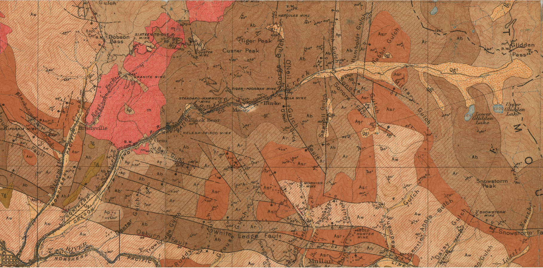 1907 Burke Canyon Idaho geologic map, where m is monzonite and syenite, Ap is Prichard Slate, Ab is Burke Formation, Ar is Revett Quartzite, Asr is St. Regis Formation, Aw is Wallace Formation, Asp is Striped Peak Formation, Tg are Tertiary terrace gravels, Qgl is Quaternary glacial deposits, Qal is Quaternary alluvium, x is a prospect pit and y is a tunnel